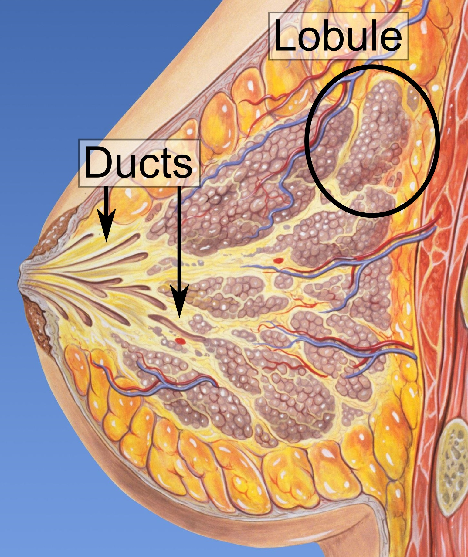 Lobules and lactiferous ducts of the breast.